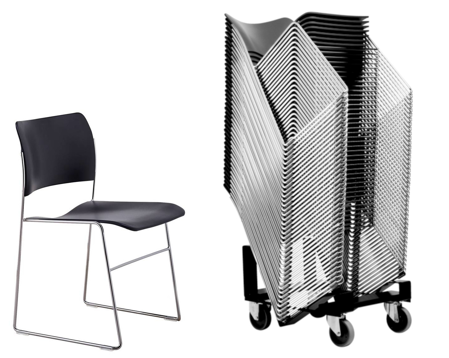 David Rowland's 40/4 chair with a single stack of 40 chairs on a dolly.